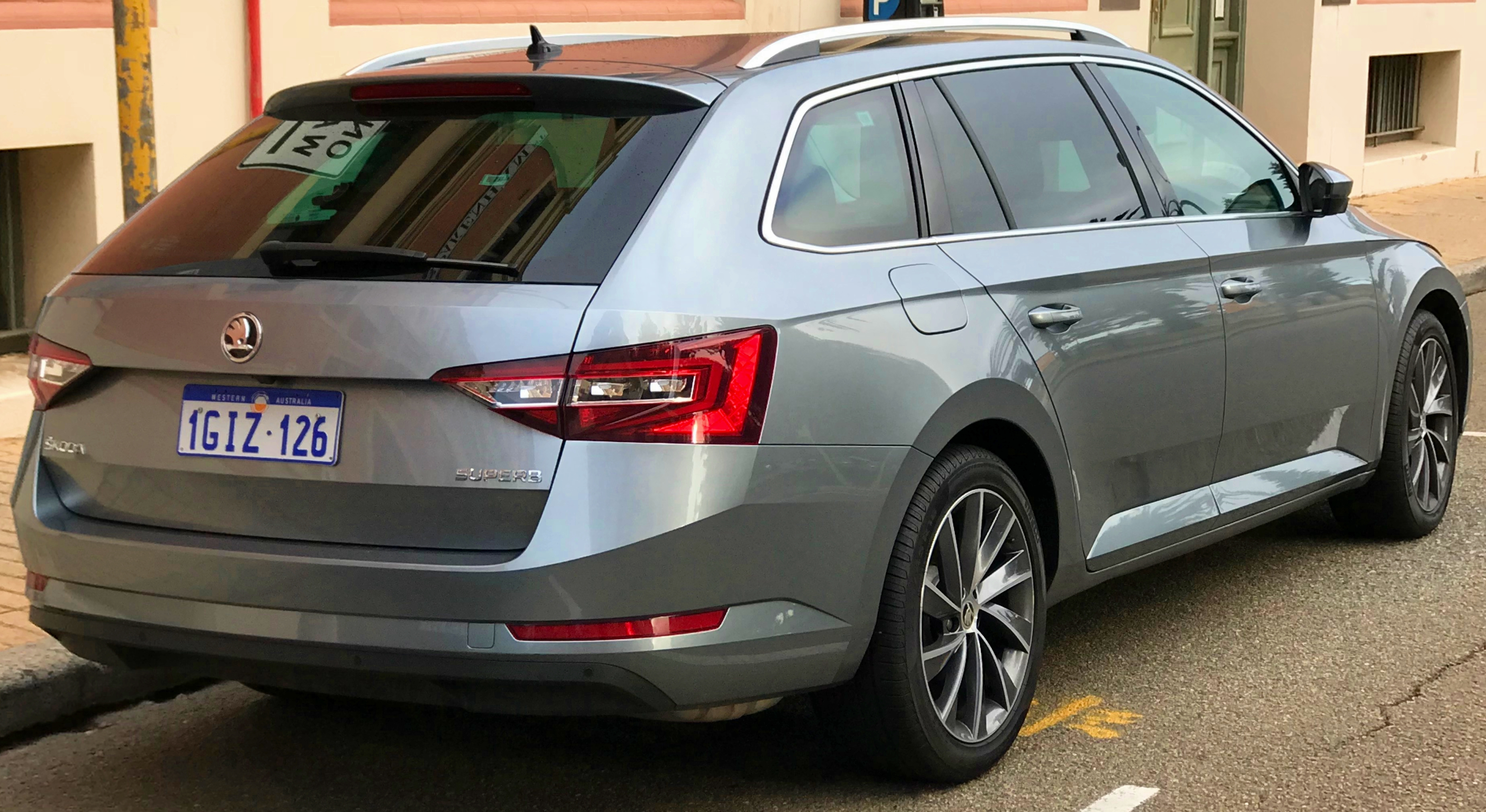 2017 Skoda Superb (NP) 140TDI station wagon. Photographed in Fremantle, Western Australia, Australia.